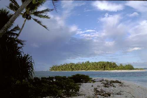 Fualifeke Islet seen from northern Funafuti Island, Tuvalu.